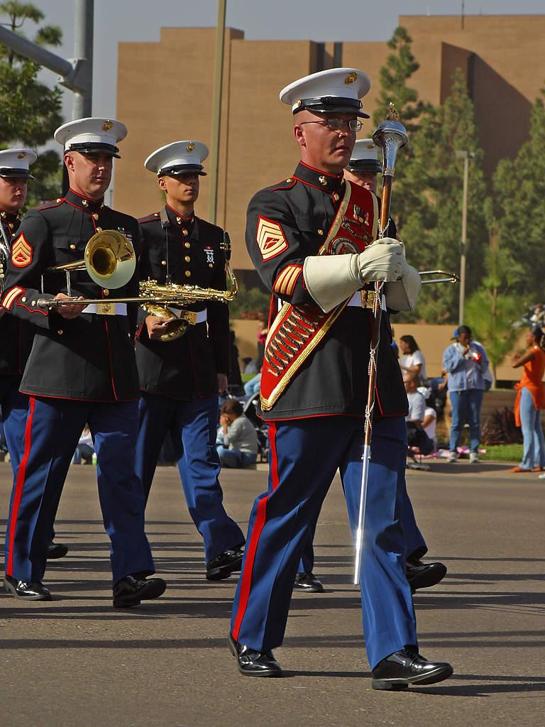 The drum major leads the Marine Corps Recruit Depot San Diego Band at the Mother Goose Parade in El Cajon, CA, USA.